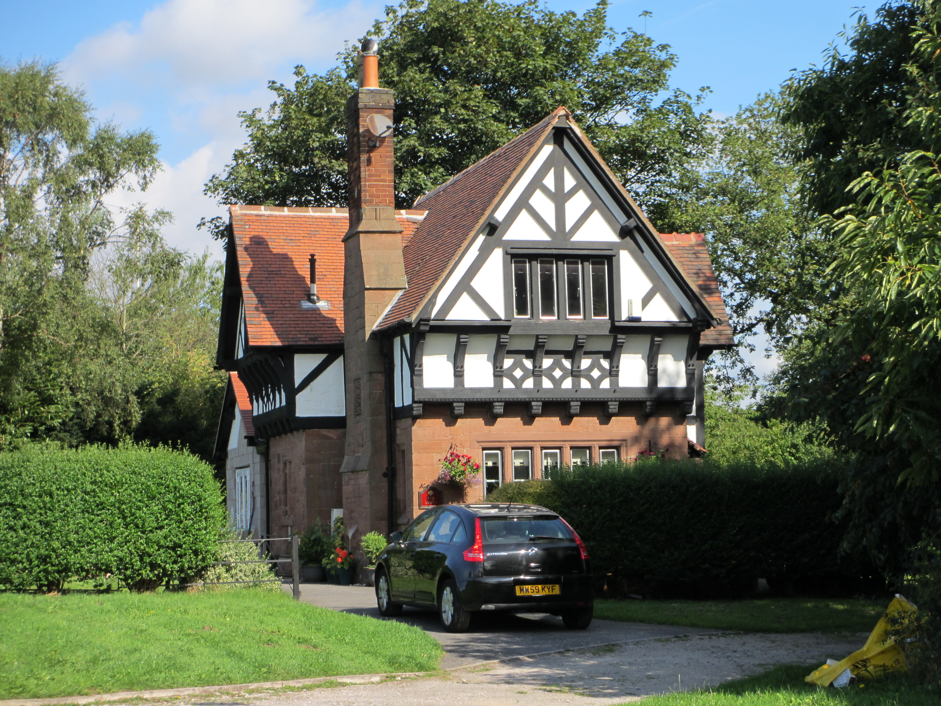 Photograph of Red Lodge, Norton, Runcorn, Cheshire